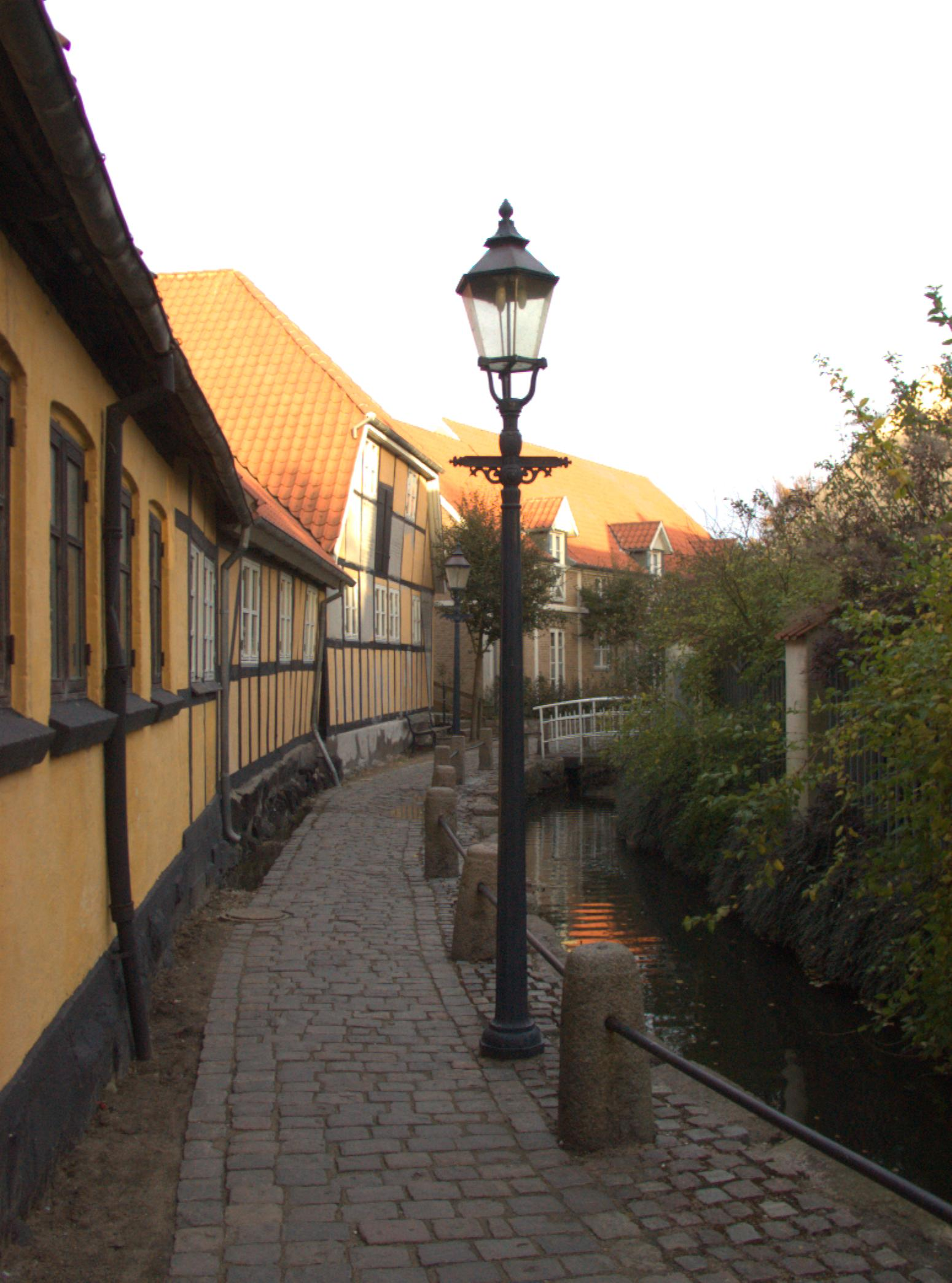 The brook Bybækken in the town Bogense on northern Funen in Denmark.